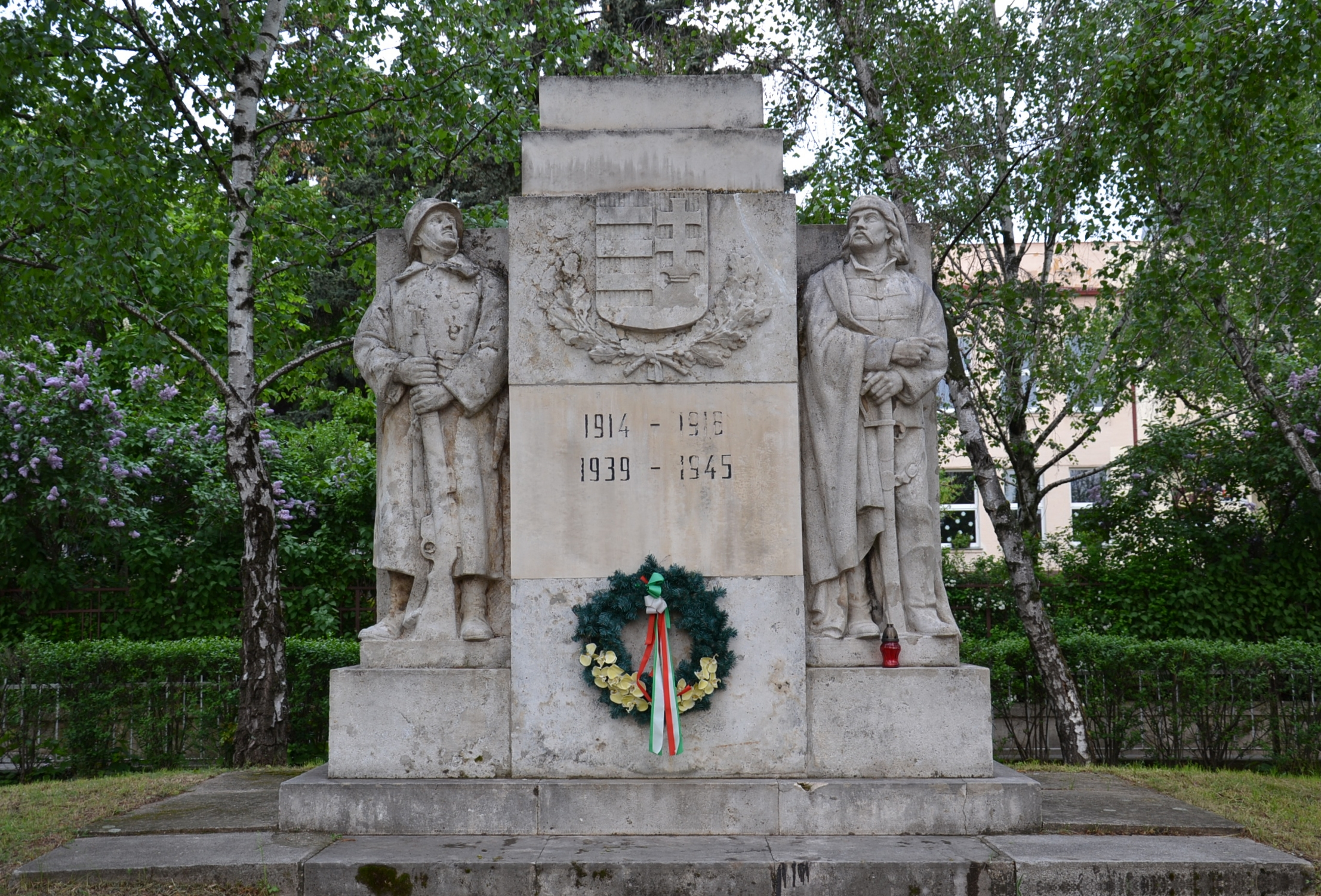 World War monument in Senec (Szenc, Wartberg), Slovakia